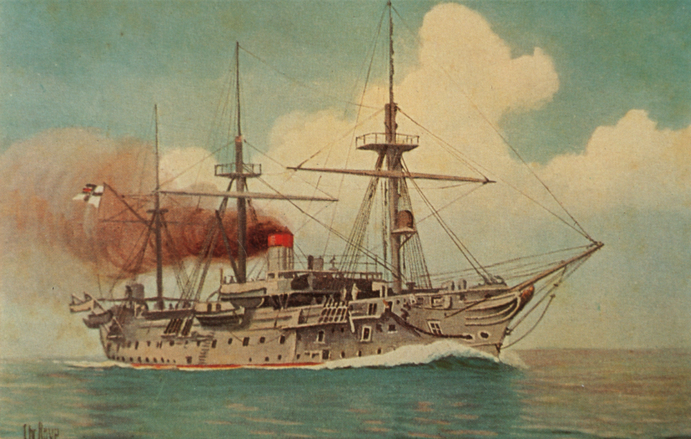 The German cruiserfrigate SMS Blücher (launched 1877) painted by Christopher Rave.